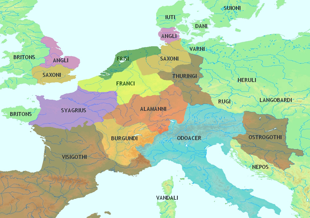 political divisions in Central-Western Europe in the year AD 480 (just before the accession of Clovis I) see also: File:Politically divided Gaul, 481.jpg File:Map_Burgundian_Kingdom_EN.png File:Odoacer 480ad.jpg File:Britain.5th.cen.AS.cemeteries.jpg File:Britain.Anglo.Saxon.homelands.settlements.400.500.jpg File:Europe at the fall of the Western Roman Empire in 476.jpg File:MajorianEmpire.png File:Visigothic Kingdom.png File:Frankish Empire 481 to 814-en.svg File:Public Schools Historical Atlas - Europe 476-493.jpg File:Conquests of Clovis.png